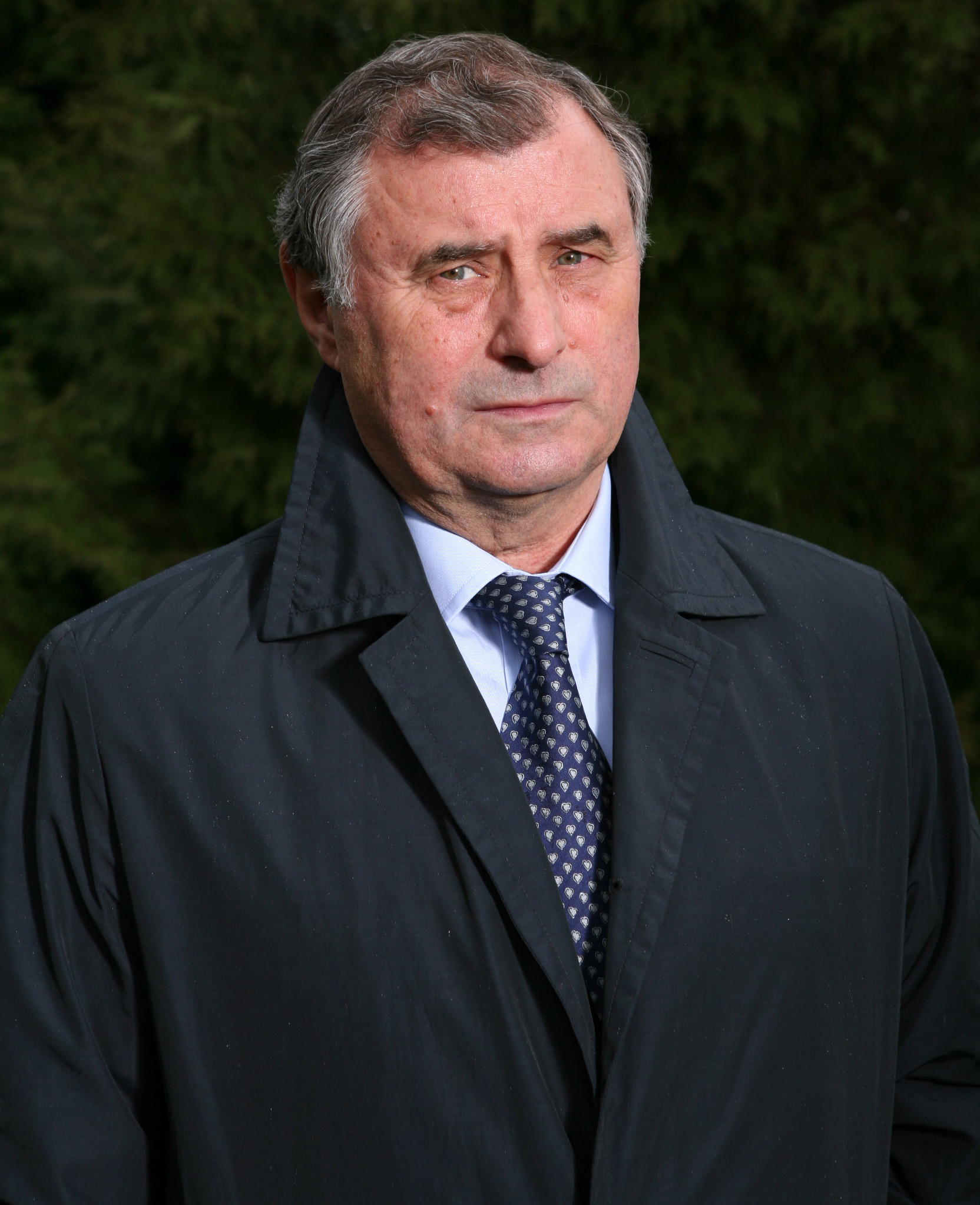 Anatoliy Byshovets